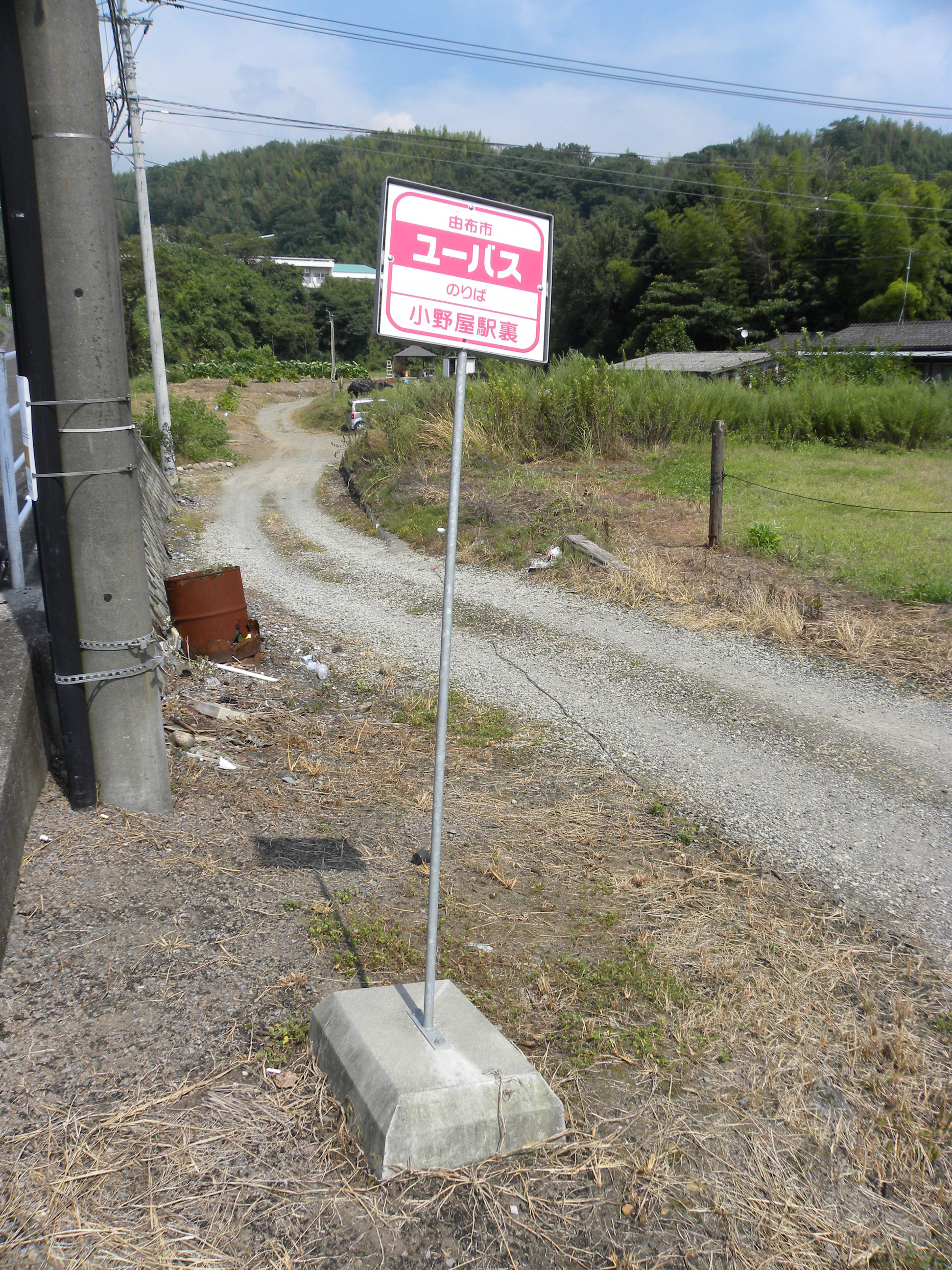 Yufu City Community Bus Onoya-eki-ura (Onoya Station) Bus Stop